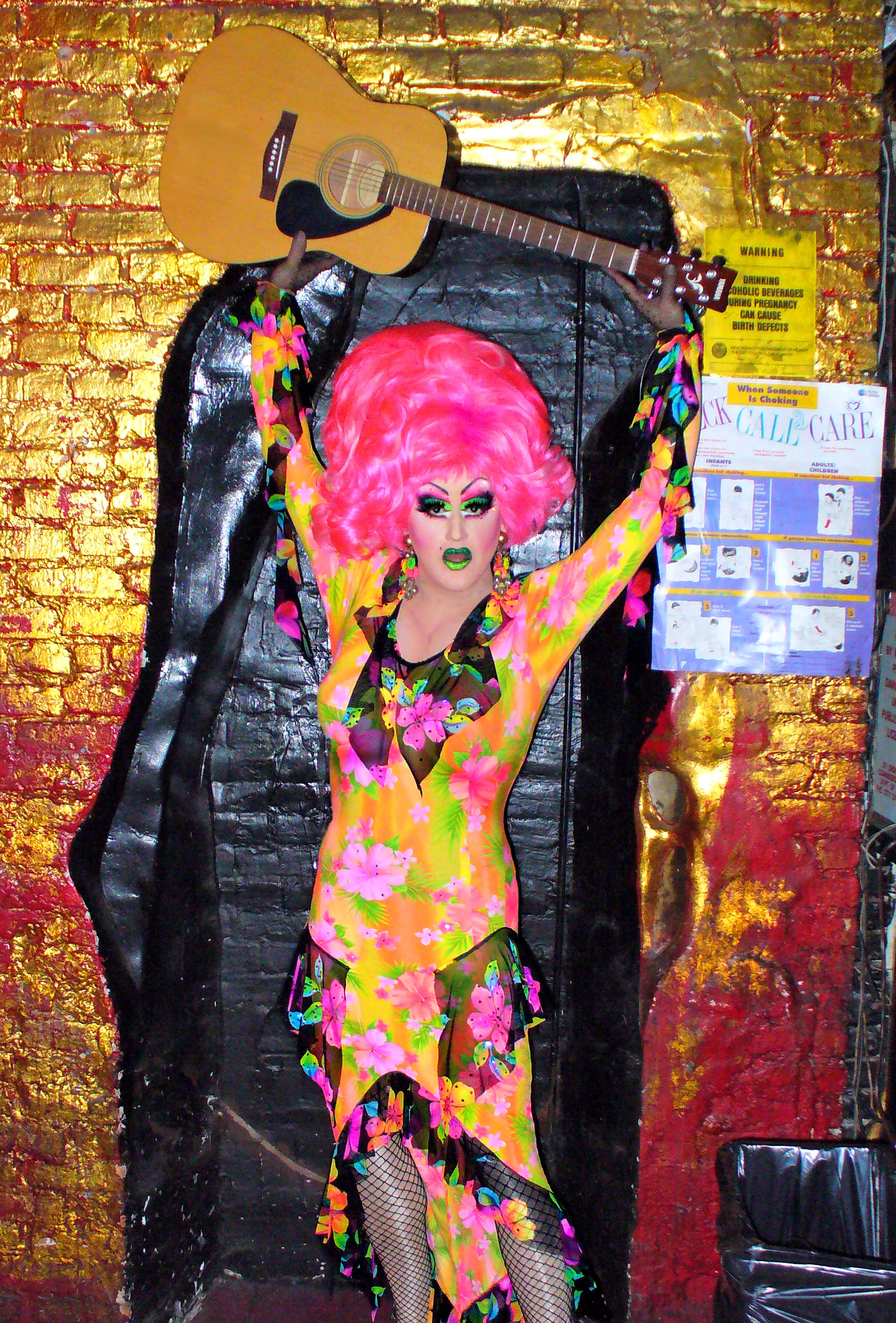 Miss Understood by David Shankbone